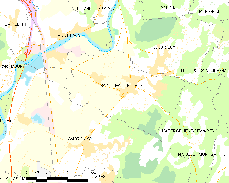 Map of French commune: Saint-Jean-le-Vieux Map commune FR insee code 01363.png